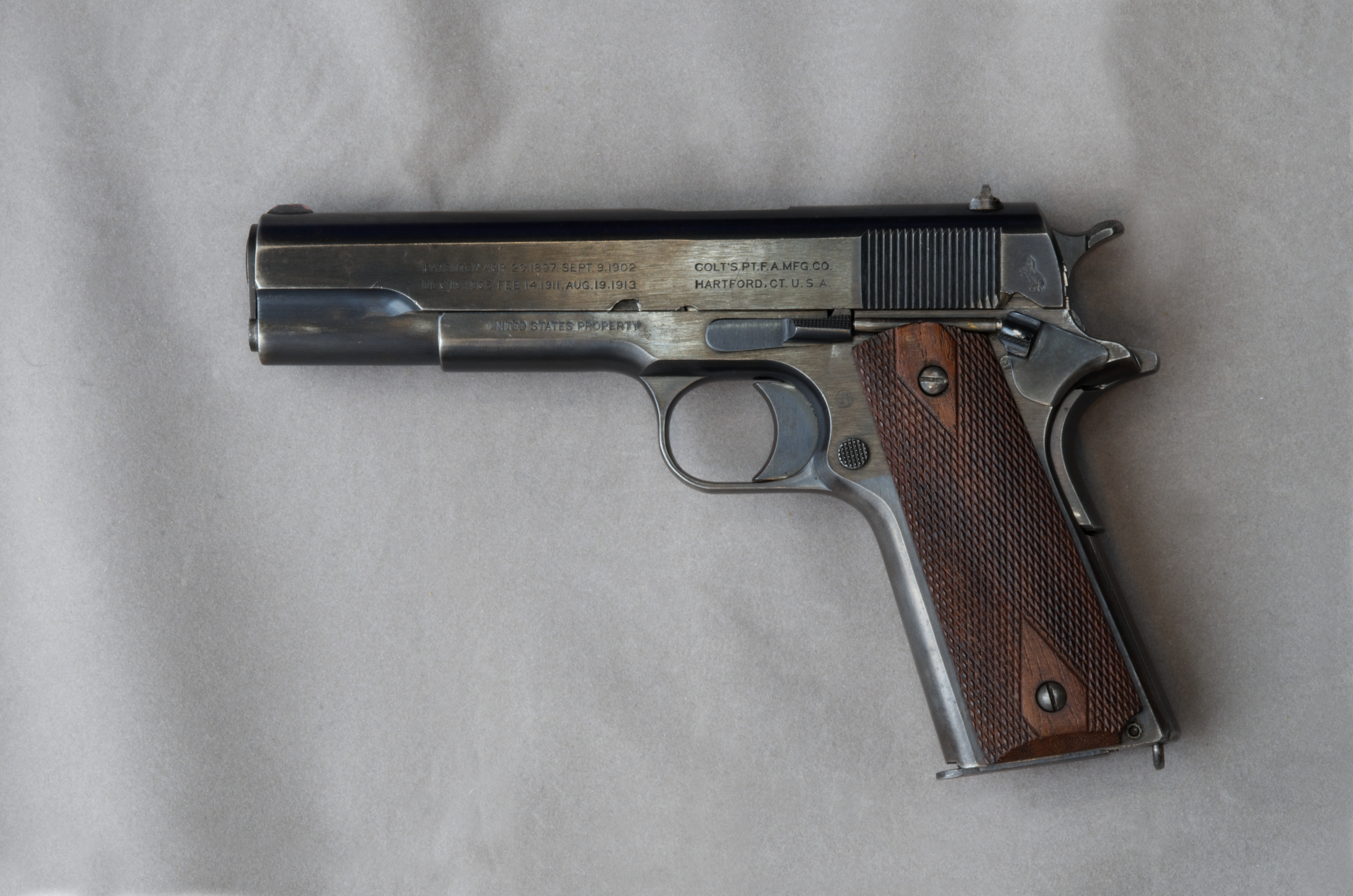 Colt 1911 .45 ACP S/n 246524, left side. Manufactured 1918. Located Old Lyme, CT, 2012. See another file for other side.